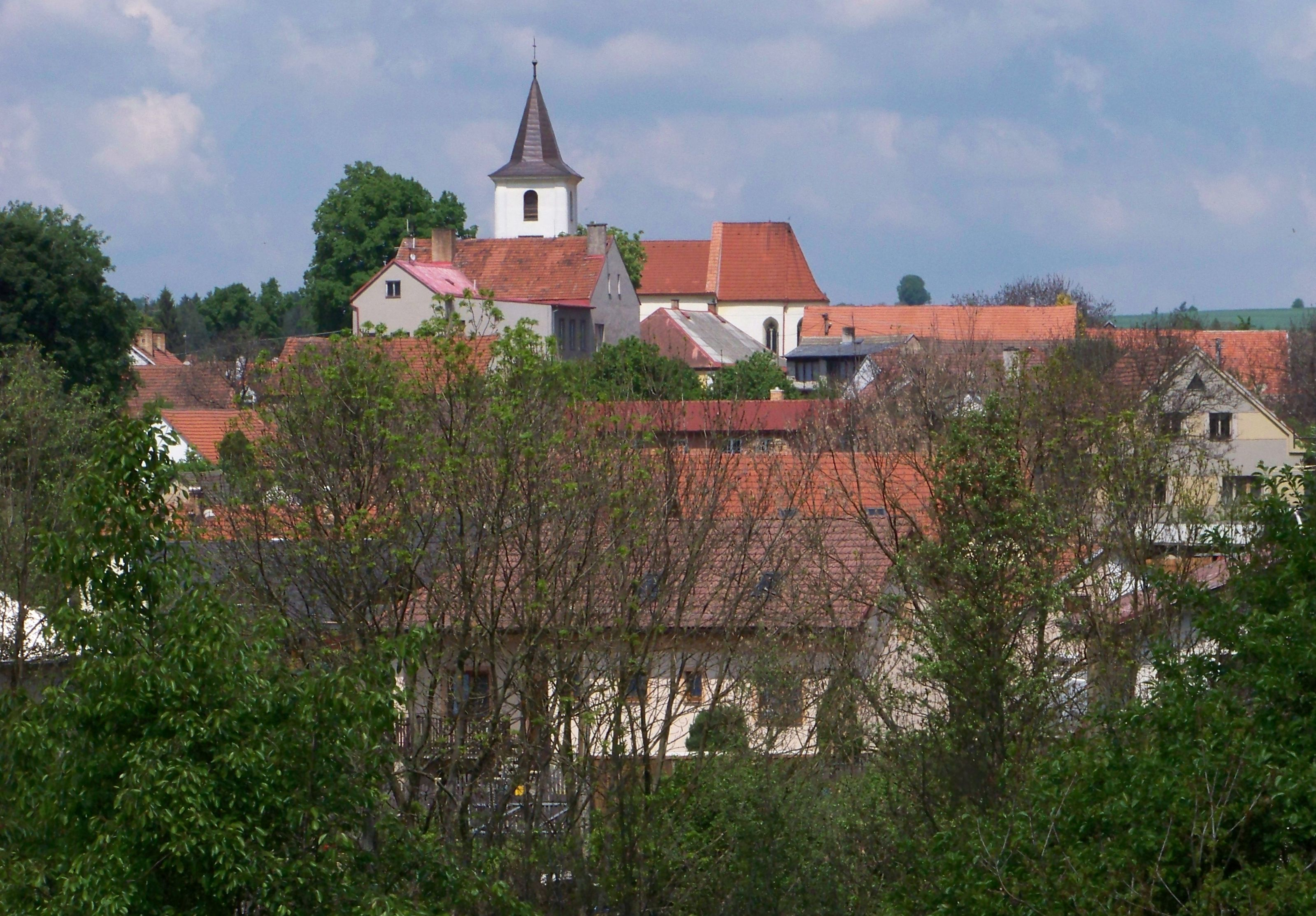 Borotín, Tábor District, South Bohemian Region, the Czech Republic. A view from the south.